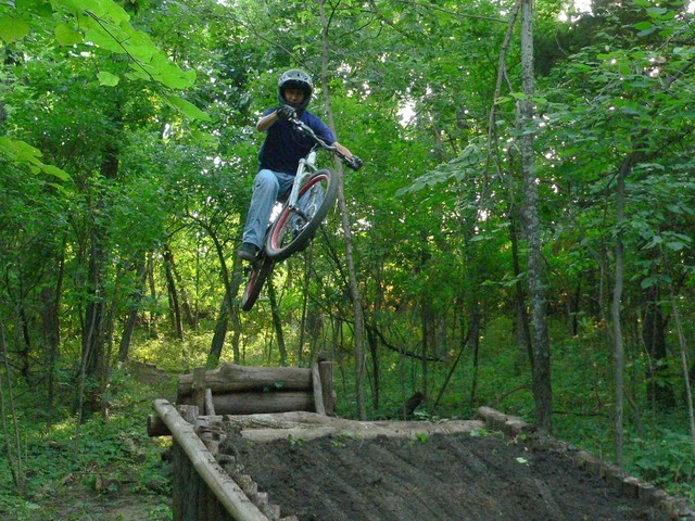 Jared hitting a jump at a freeride trail in Kansas City.